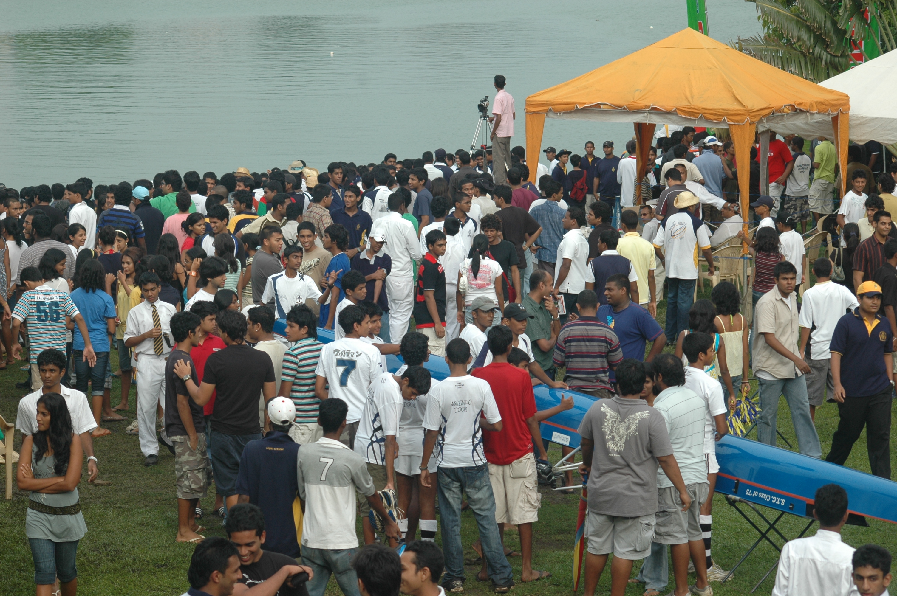 Royal Thomian 2007 Crowd